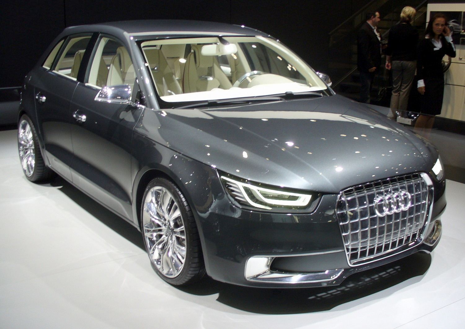 Audi A1 Sportback